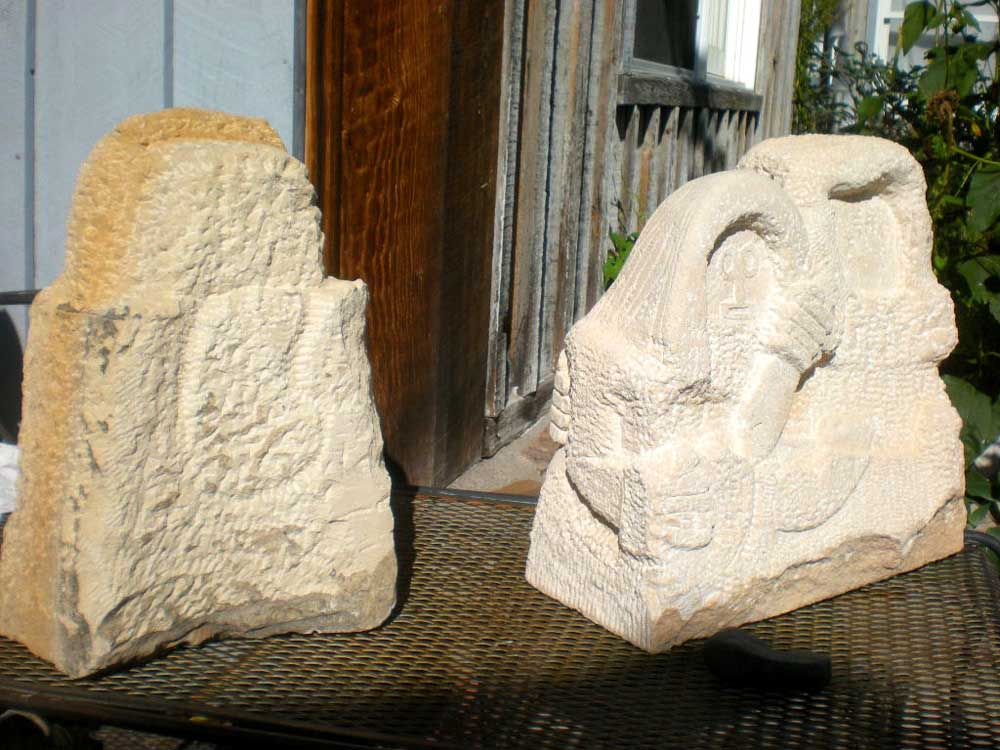 roughed out stone sculptures; an early stage